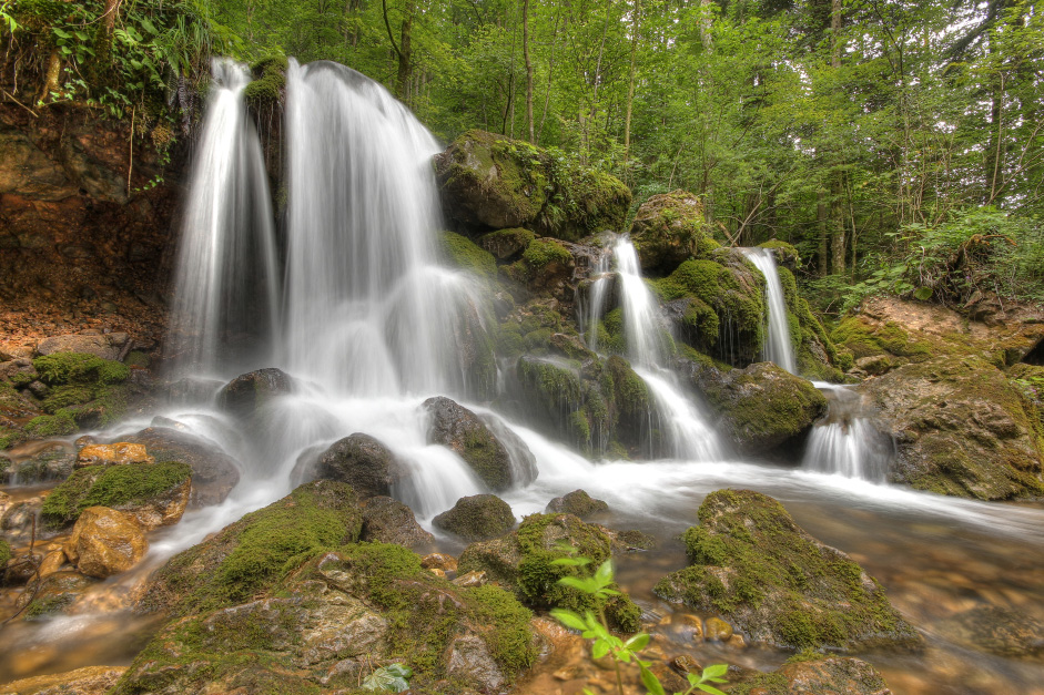 At the beginning 10 minutes after Mixnitz